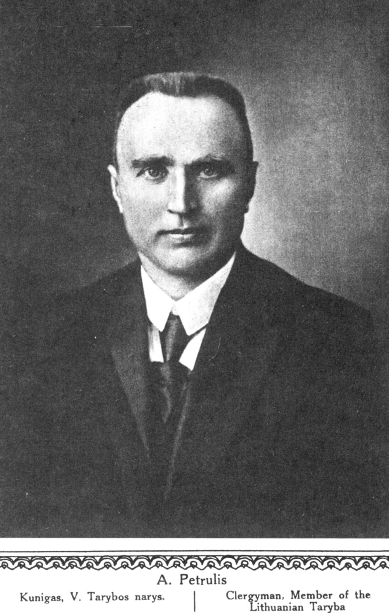 Alfonsas Petrulis, Lithuanian clergyman, one of Signatories of the Act of Independence of Lithuania